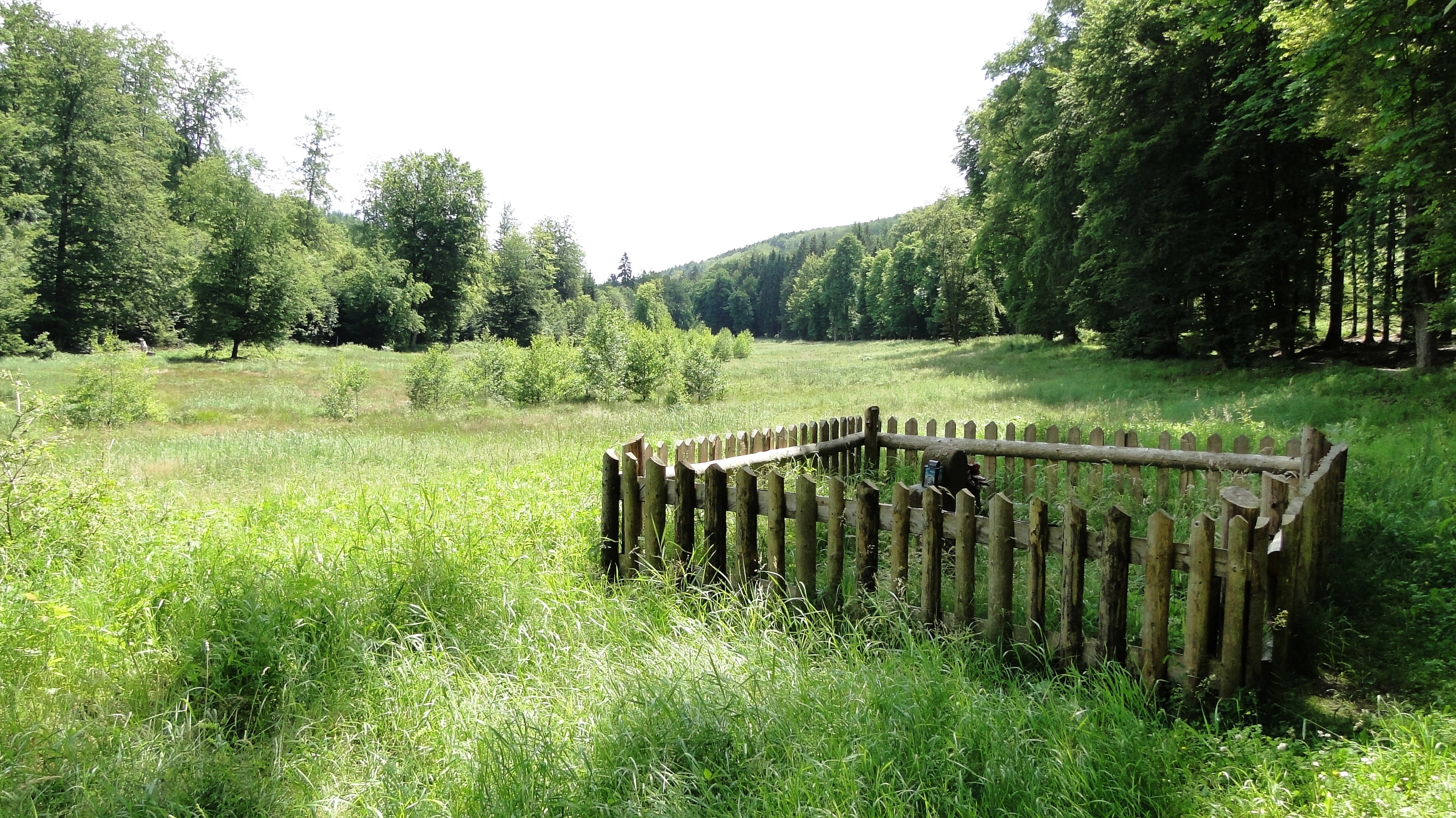 memorial cross for the "arch-poacher" Johann Adam Hasenstab (1716-1773) in the Hochspessart west of Schollbrunn, Lower Franconia, Bavaria, Germany